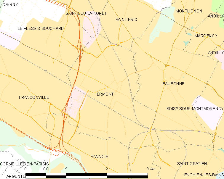 Map of French municipality Ermont